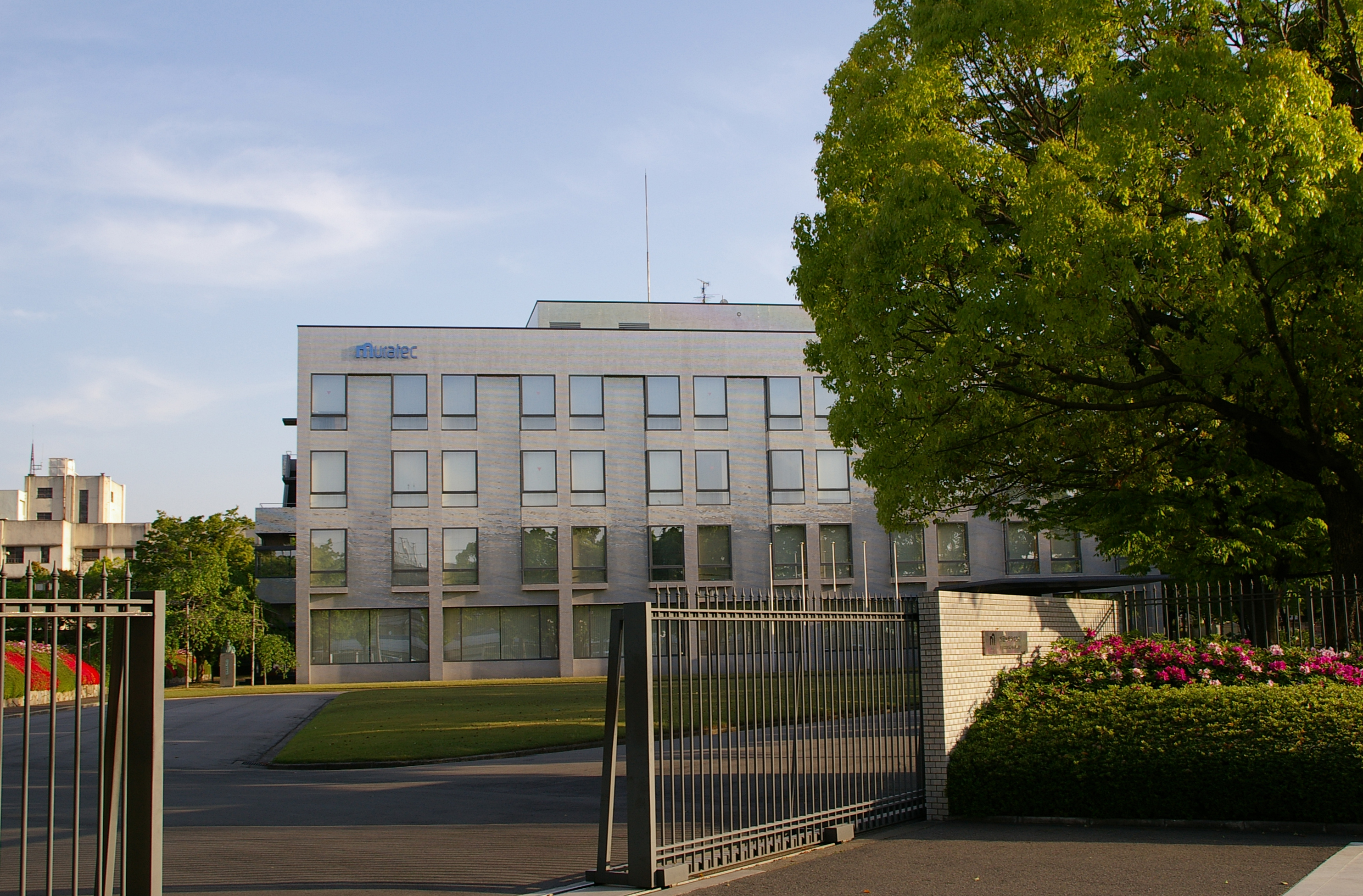 Photograph of headquarters of Murata Machinery in Fushimi-ku, Kyoto, Kyoto Prefecture, Japan.